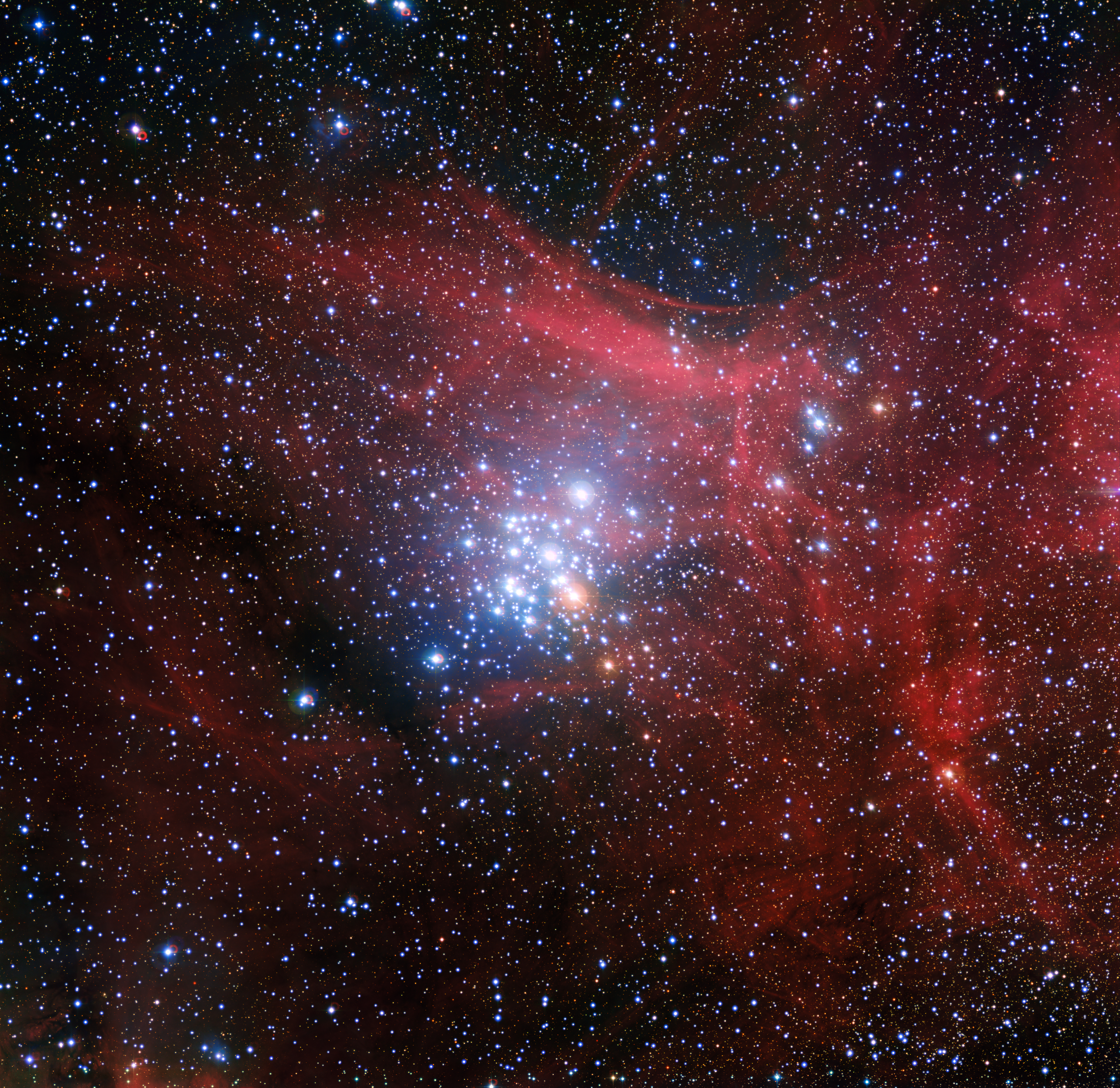 The star cluster NGC 3293 In this image from the Wide Field Imager on the MPG/ESO 2.2-metre telescope at ESO’s La Silla Observatory in Chile young stars huddle together against a backdrop of clouds of glowing gas and lanes of dust. The star cluster, known as NGC 3293, would have been just a cloud of gas and dust itself about ten million years ago, but as stars began to form it became the bright group we see here. Clusters like this are celestial laboratories that allow astronomers to learn more about how stars evolve. Credit: ESO/G. Beccari.